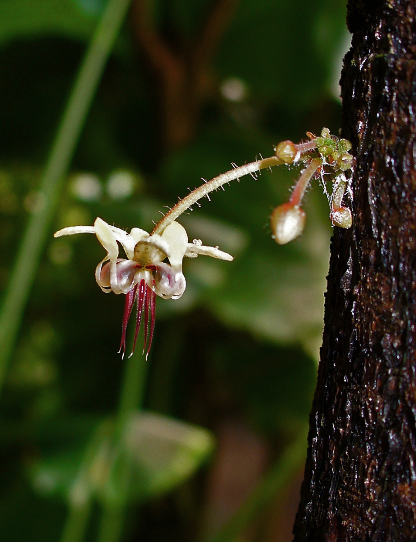 Theobroma cacao, Malvaceae, Cocoa Tree, Cacao Tree, flower. Botanical Garden KIT, Karlsruhe, Germany.